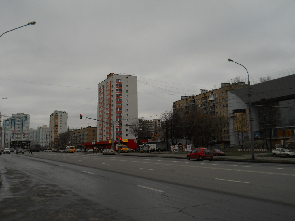 Polyarnaya street, 1-3-5, Moscow, Russia.